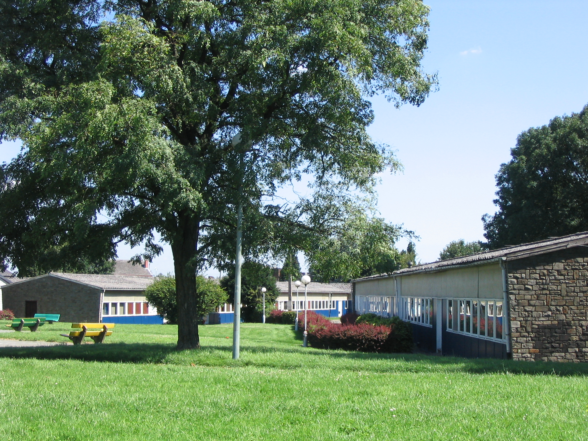 RTG buildings in Athénée Royal Alleur Ans (school Liège/Belgium)